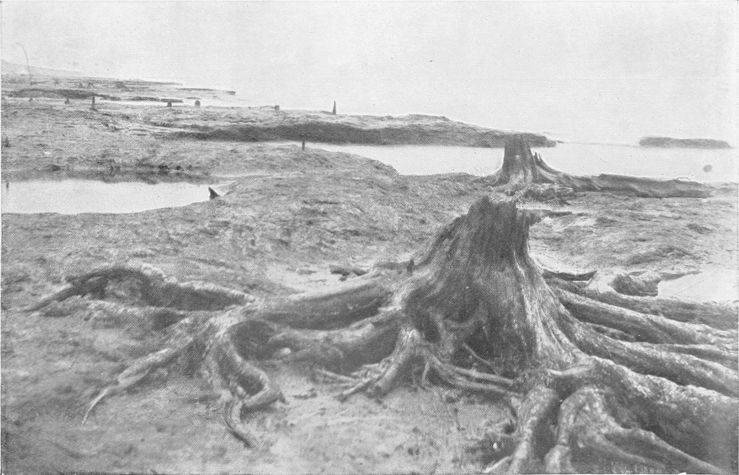 "Buried Forest seen at low water at Dove Point, on the Cheshire coast" (England)